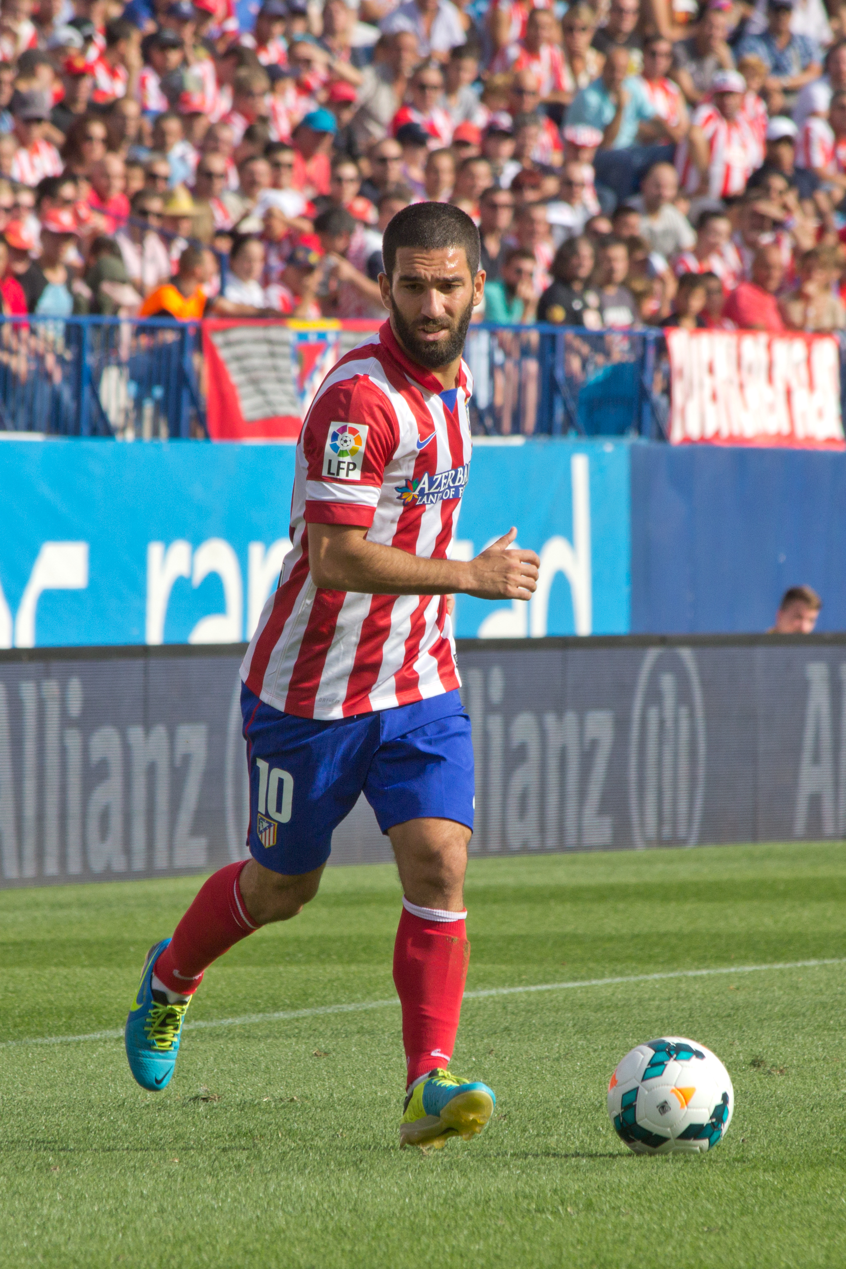 Arda Turan, footballer of Atlético de Madrid.